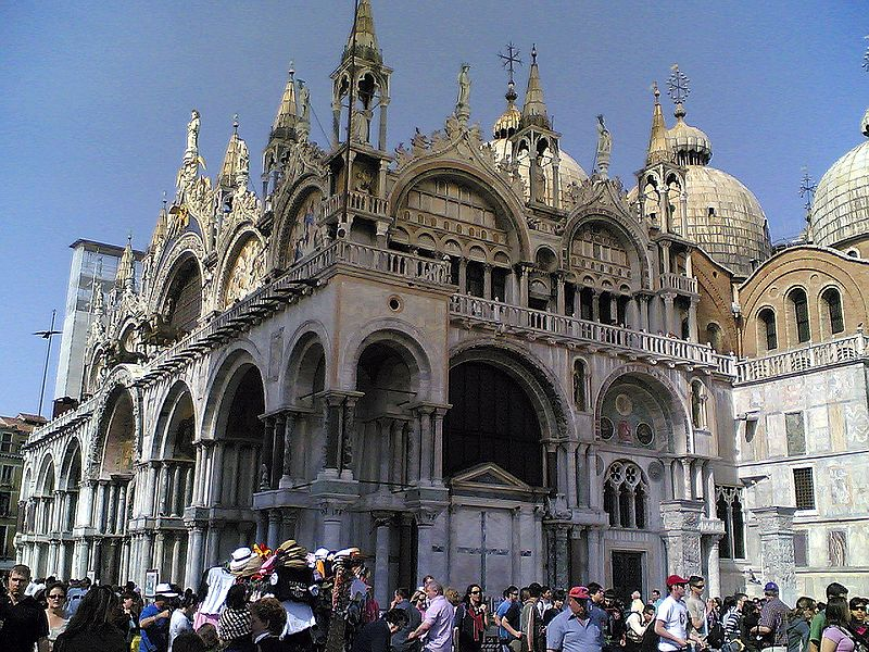 St. Mark's Basilica, Venice